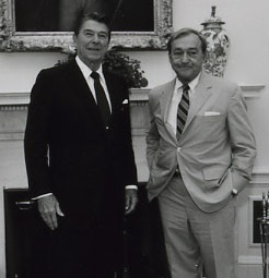 Ronald Reagan in Oval Office in 1982 with Robert H. Phinny, departing ambassador to Eswatini